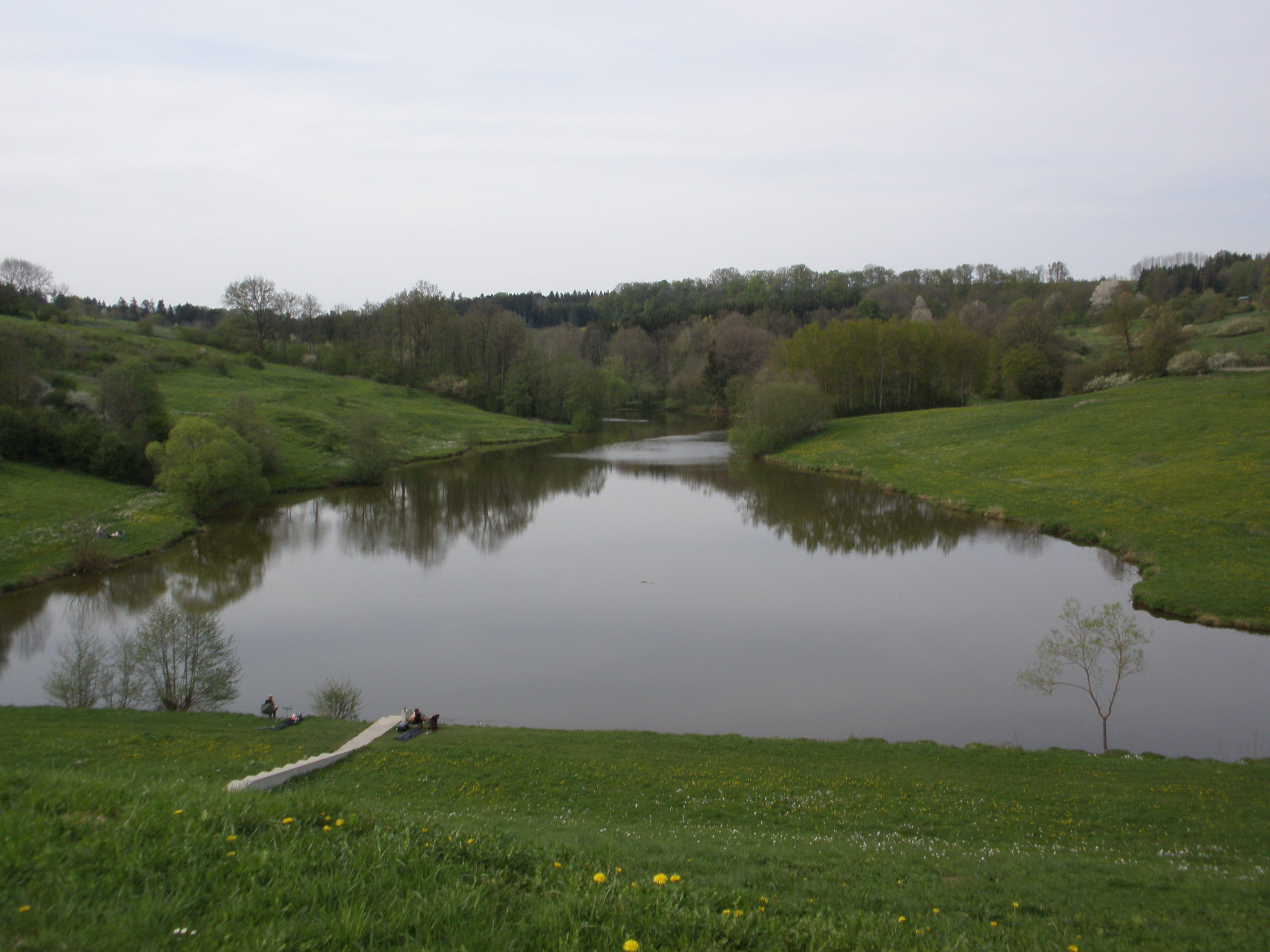 Flood retention basins Federbach near Horn (District of Göggingen)